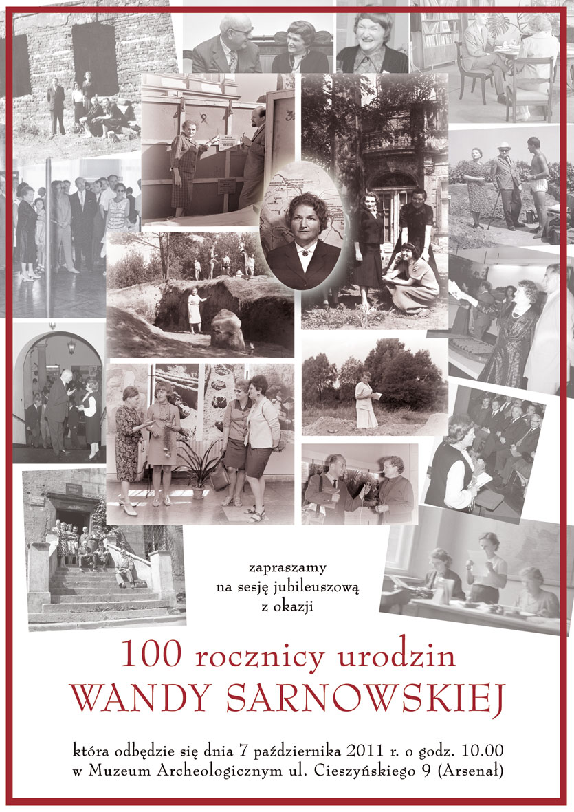 plakat okolicznoscowy ze spotkania wspominkowego o W. Sarnowskiej. 2011 Wrocław